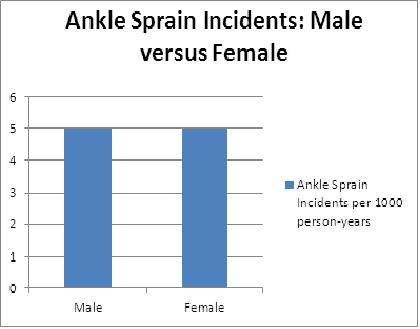 Bar graph that shows the incidence rates of average males to females